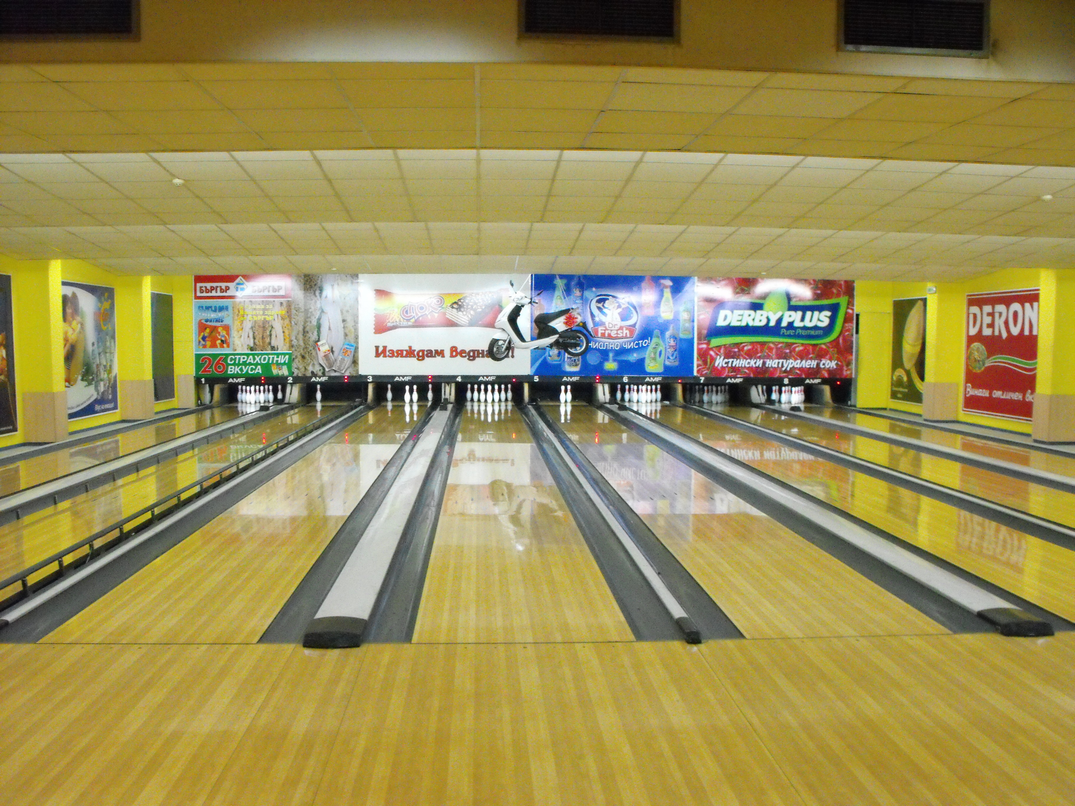 Extreme Bowling Center, Sofia, Bulgaria